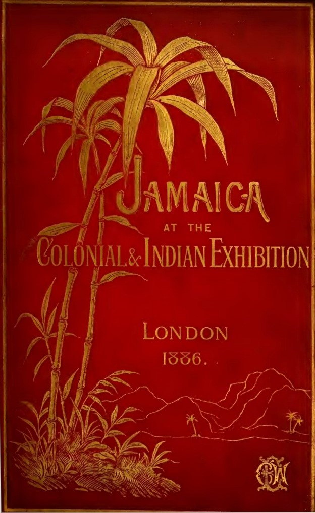 Jamaica at the Colonial and Indian Exhibition, London, 1886, by C. Washington Eves, Spottiswoode, London, 1886.